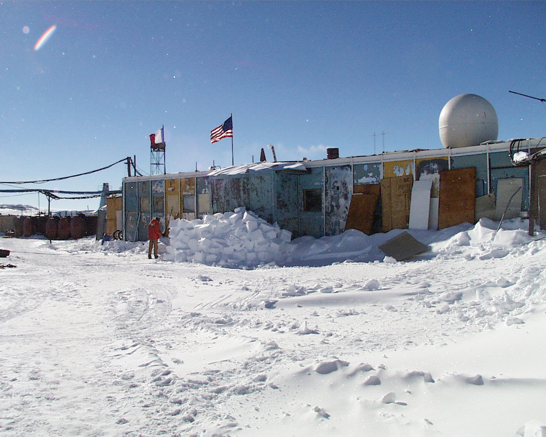 The Russian station Vostok, sits on the polar plateau. The coldest temperature ever recorded on earth was -128.6 degrees Fahrenheit at Vostok in 1983.